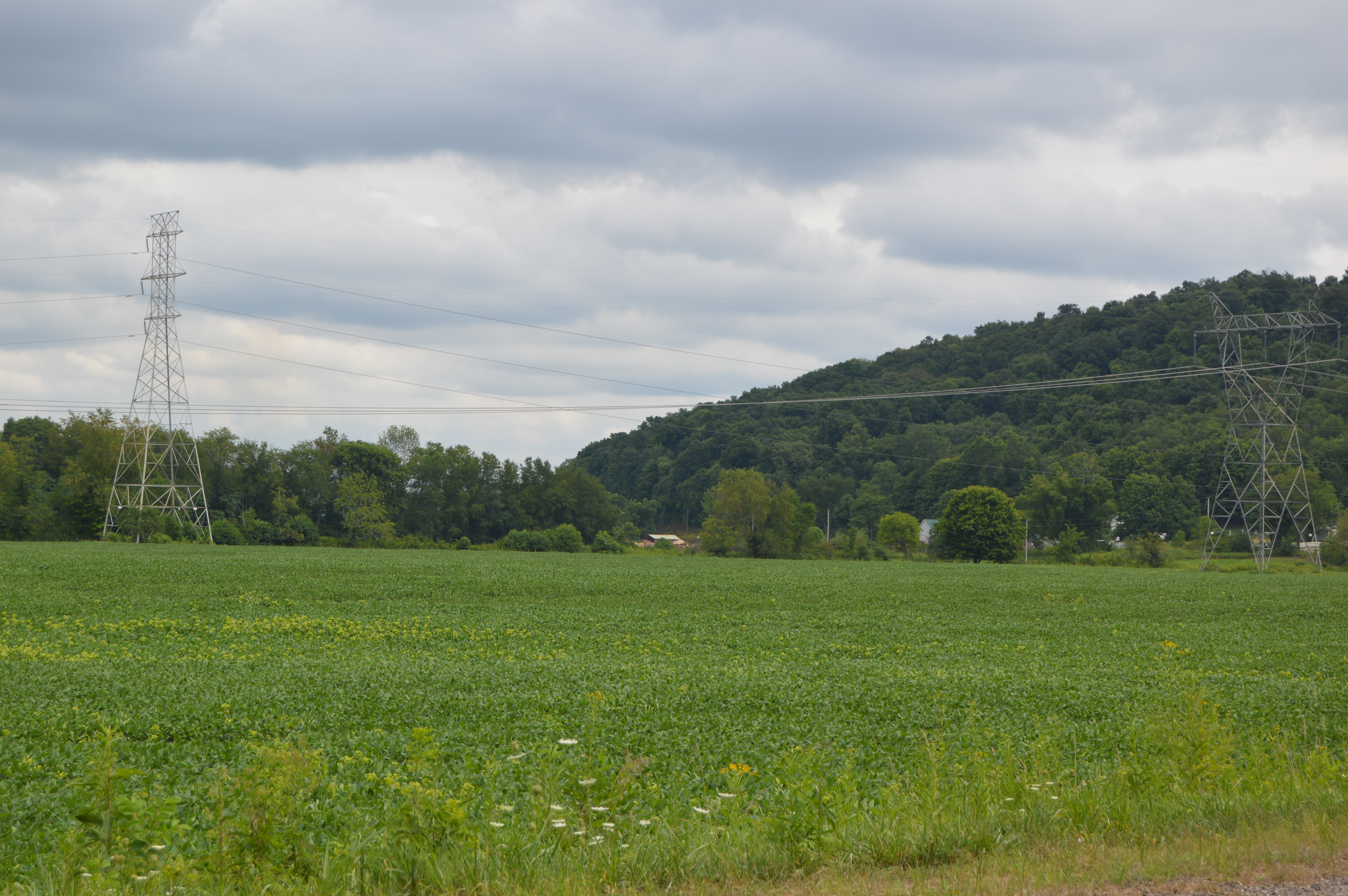 Soybean fields and a power line on the northern side of State Route 79 midway between Bladensburg and Frazeysburg in far western Pike Township, Coshocton County, Ohio, United States.